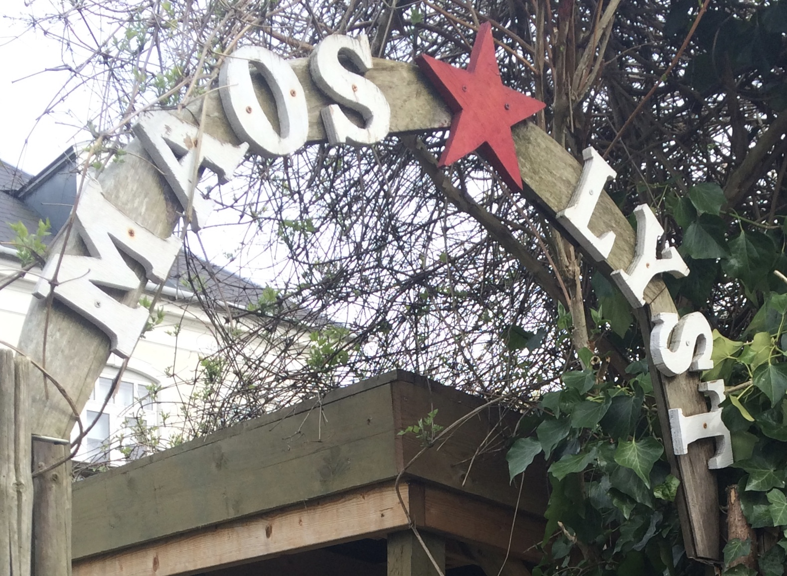 Entrance to the Maos Lyst collective in Hellerup, Copenhagen